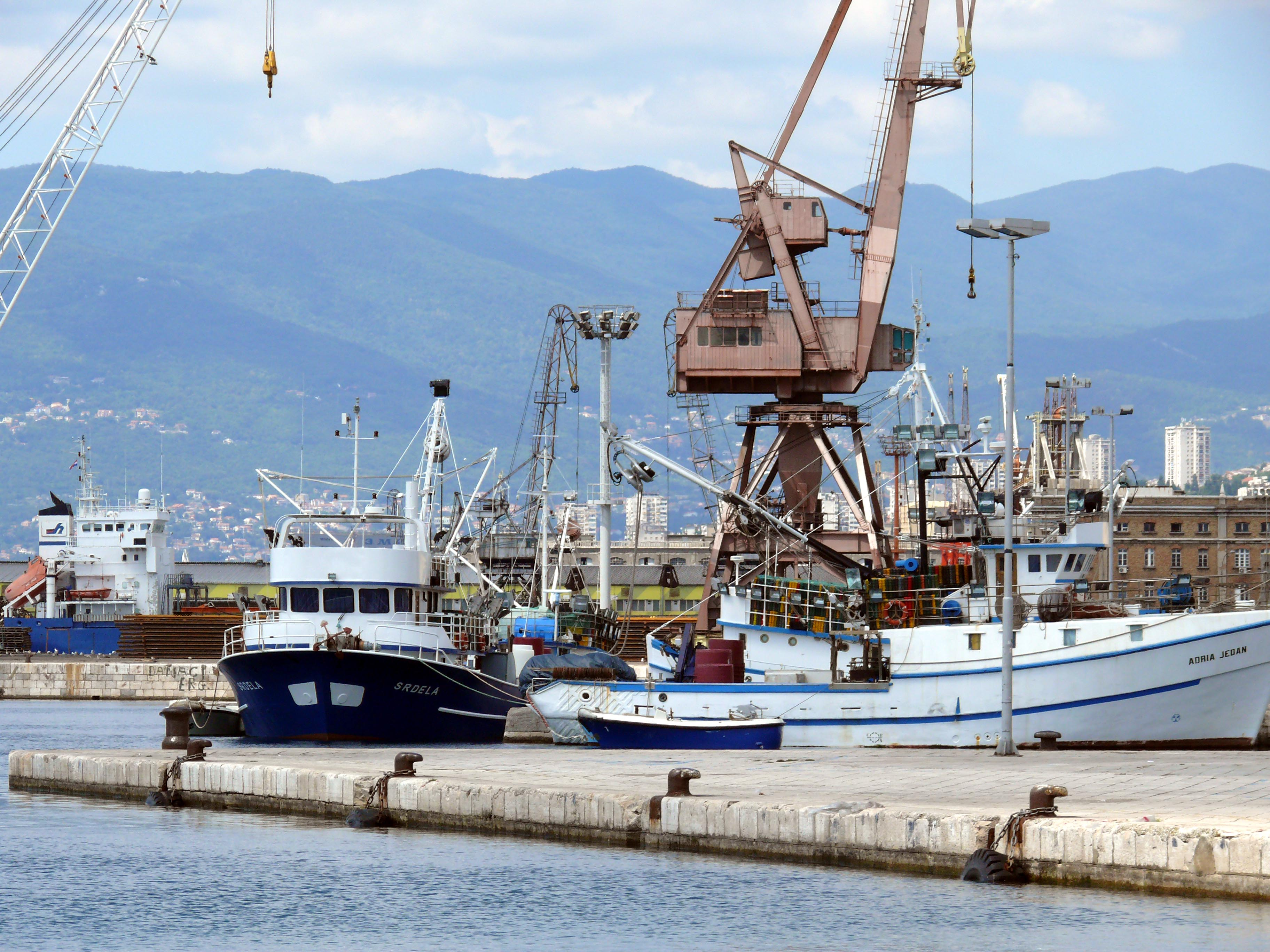 Rijeka harbour, Croatia